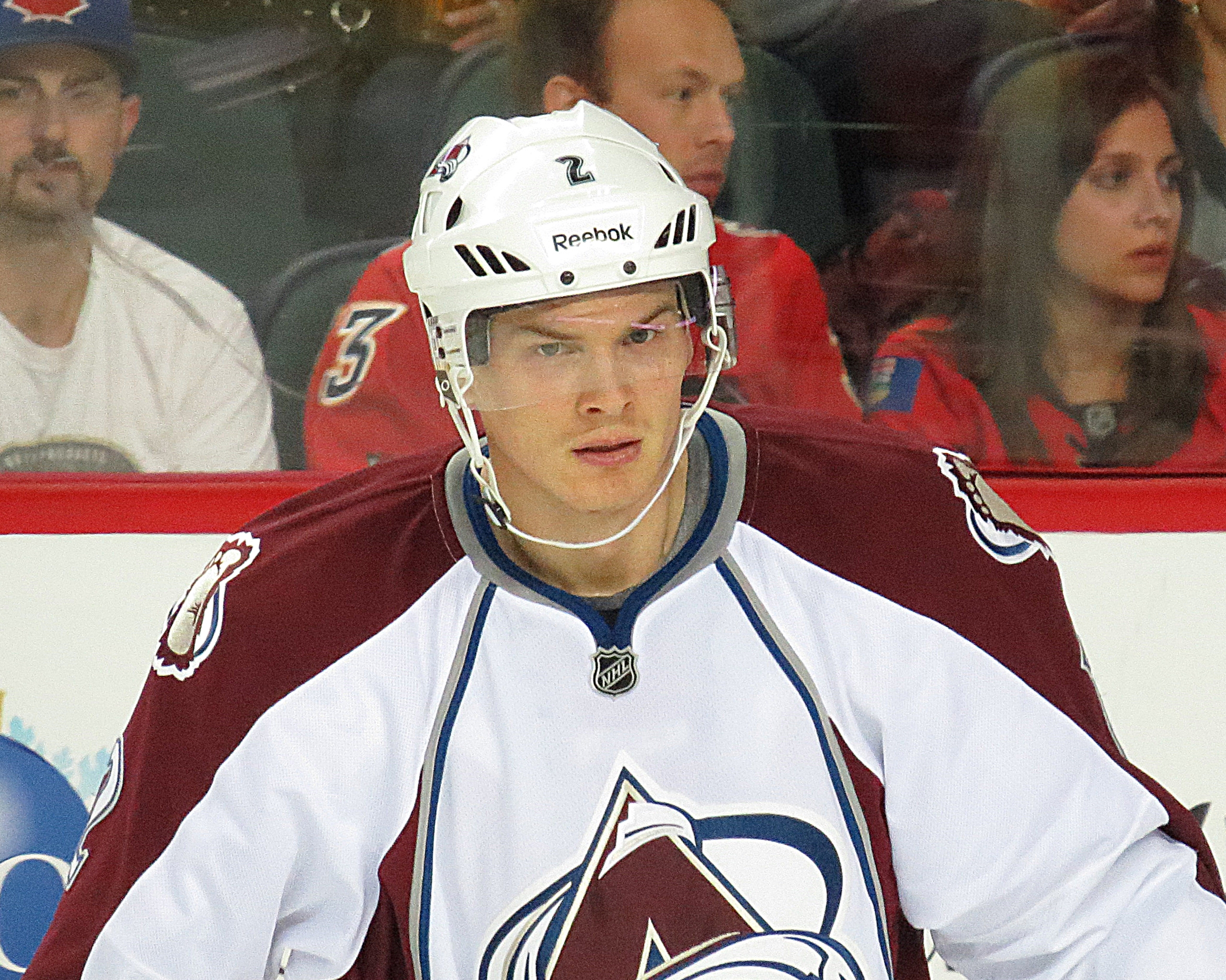 Nick Holden of the Colorado Avalanche during the 2013–14 season.